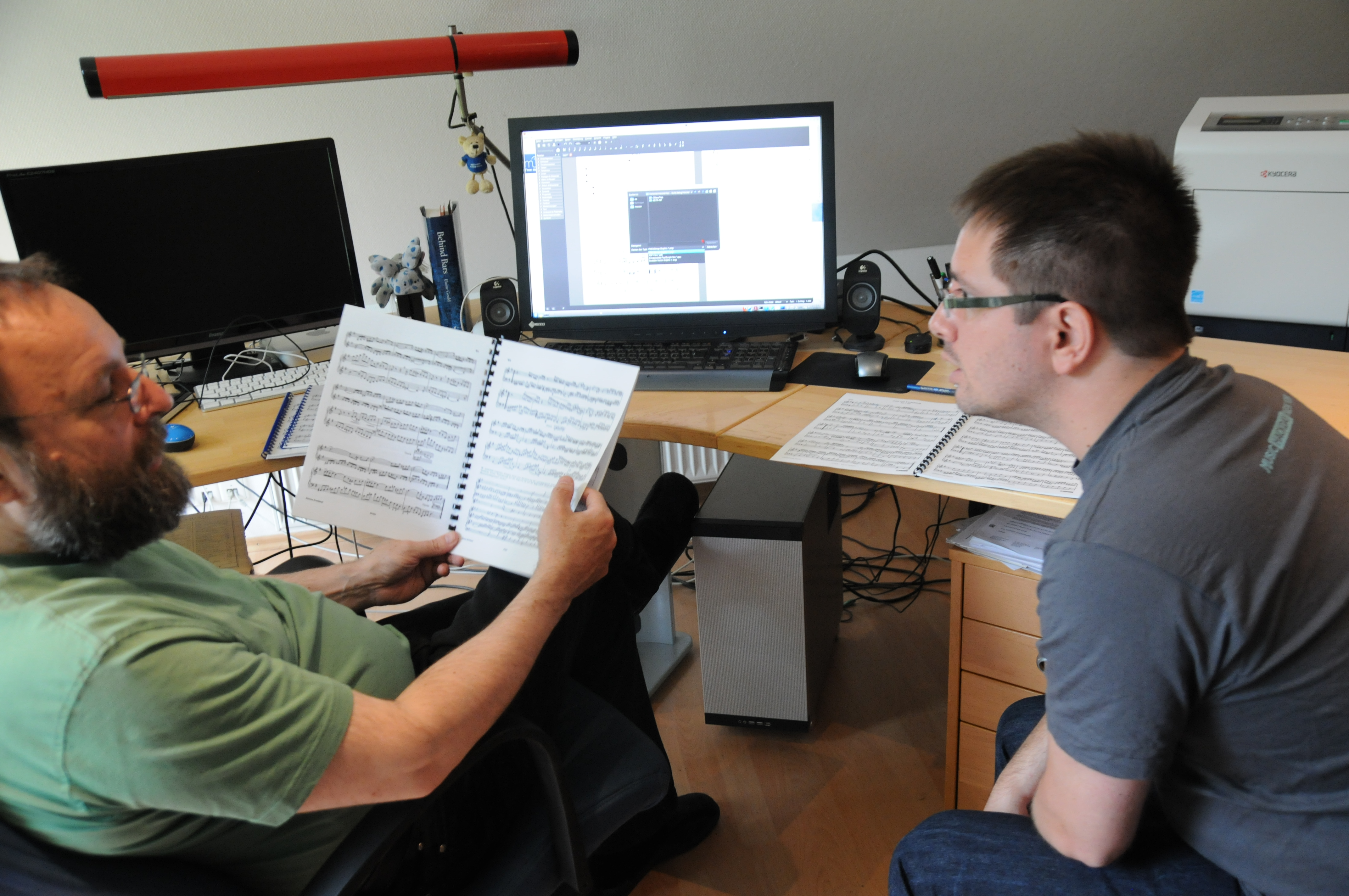 In the back you see Werner's workstation on which he develops MuseScore. If you want to check out the MuseScore nightly builds, check out